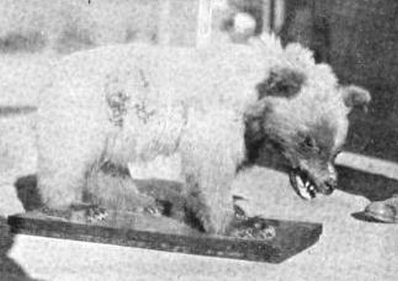 Mounted lava bear specimen displayed in Lakeview, Oregon; photo published in Oregon Sportsman magazine in October 1917